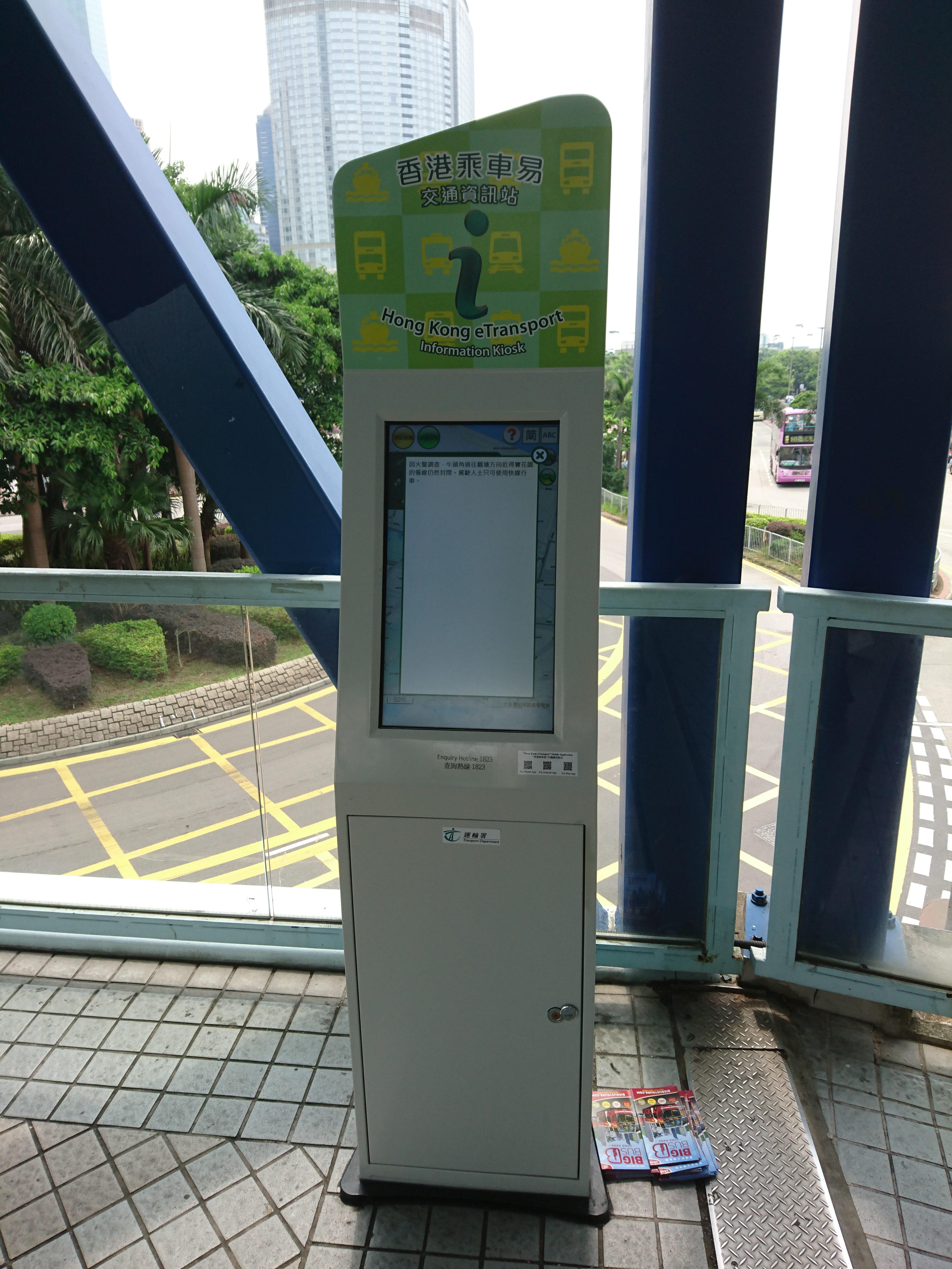 Hong Kong eTransport Information Kiosk